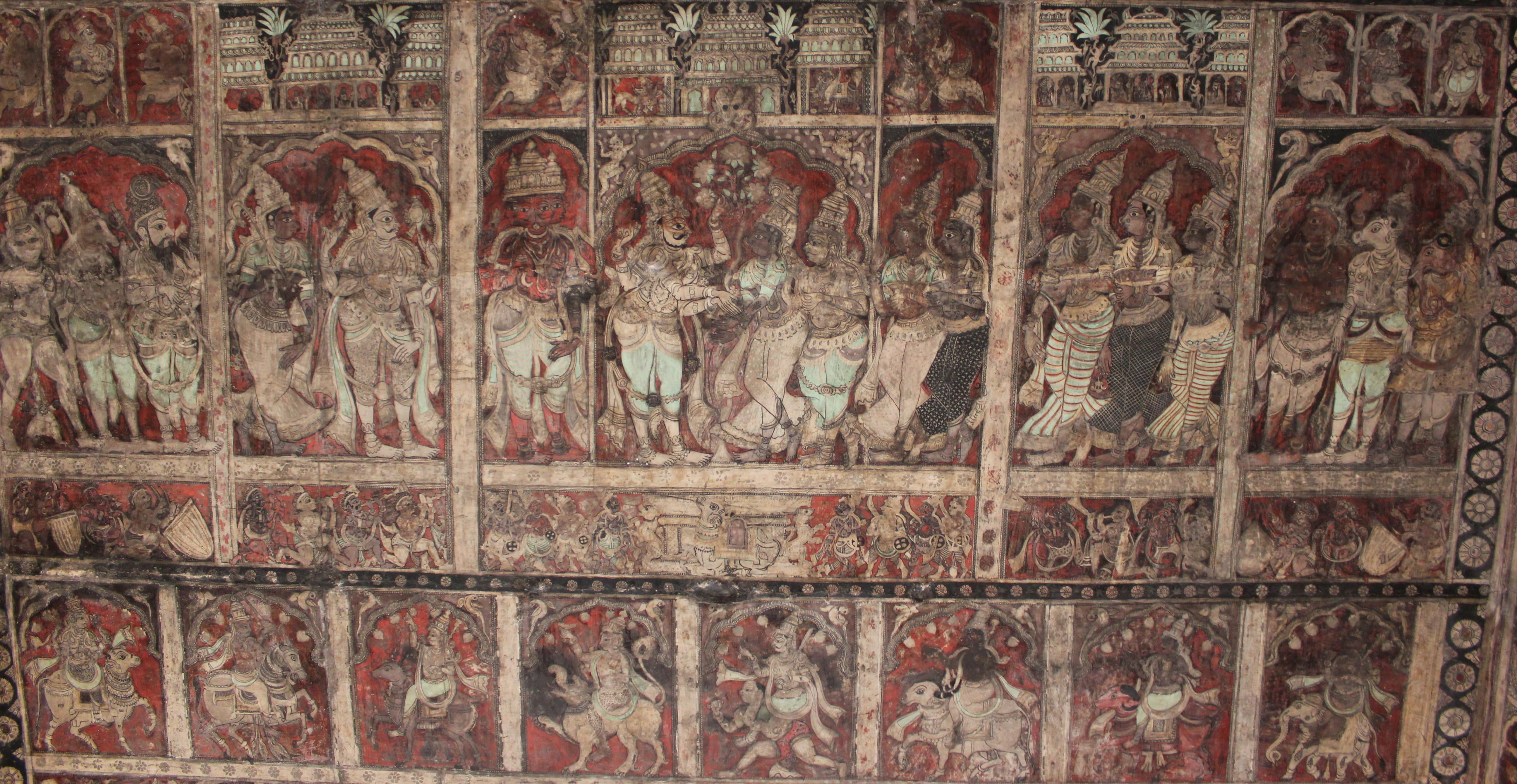 This photograph of the ceiling paintings from the Vijayanagara empire period in the mantapa of Virupaksha temple was taken by me at Hampi, a UNESCO world heritage site in Bellary district, Karnataka state, India.